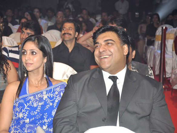 Ram Kapoor and Gautami Kapoor at 11th Indian Television Academy Awards